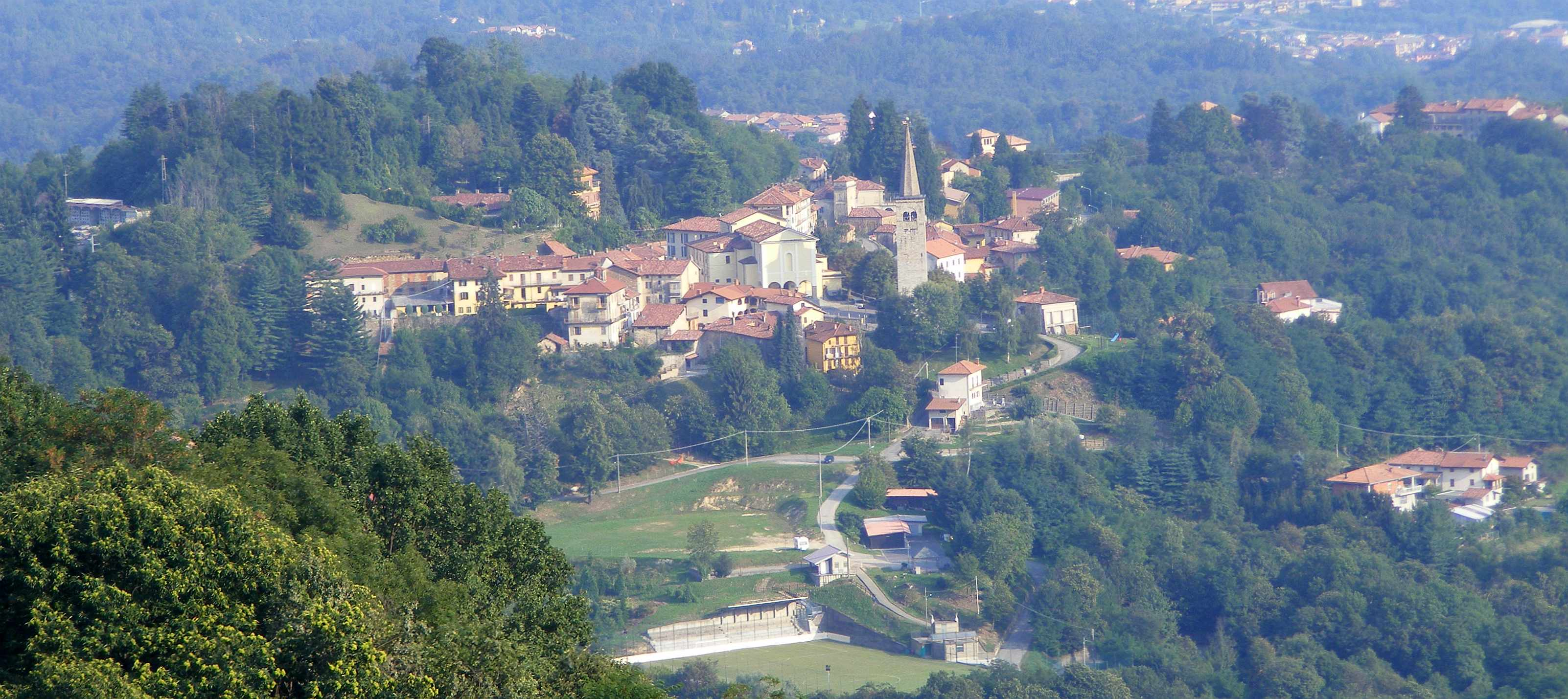 Panorama of Bioglio (BI, Italy) from Pettinengo